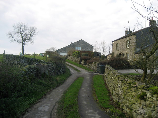 Bark Head, Lawkland, North Yorkshire